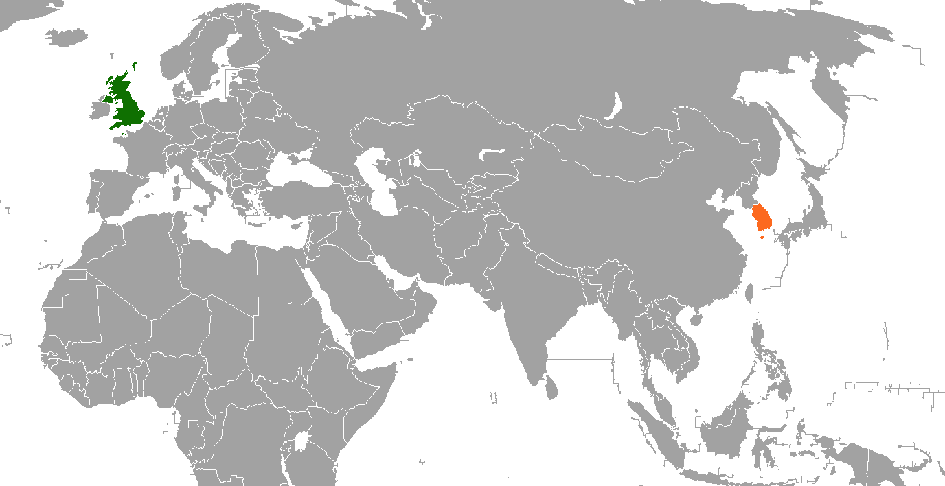 UK - South Korea , Locator map